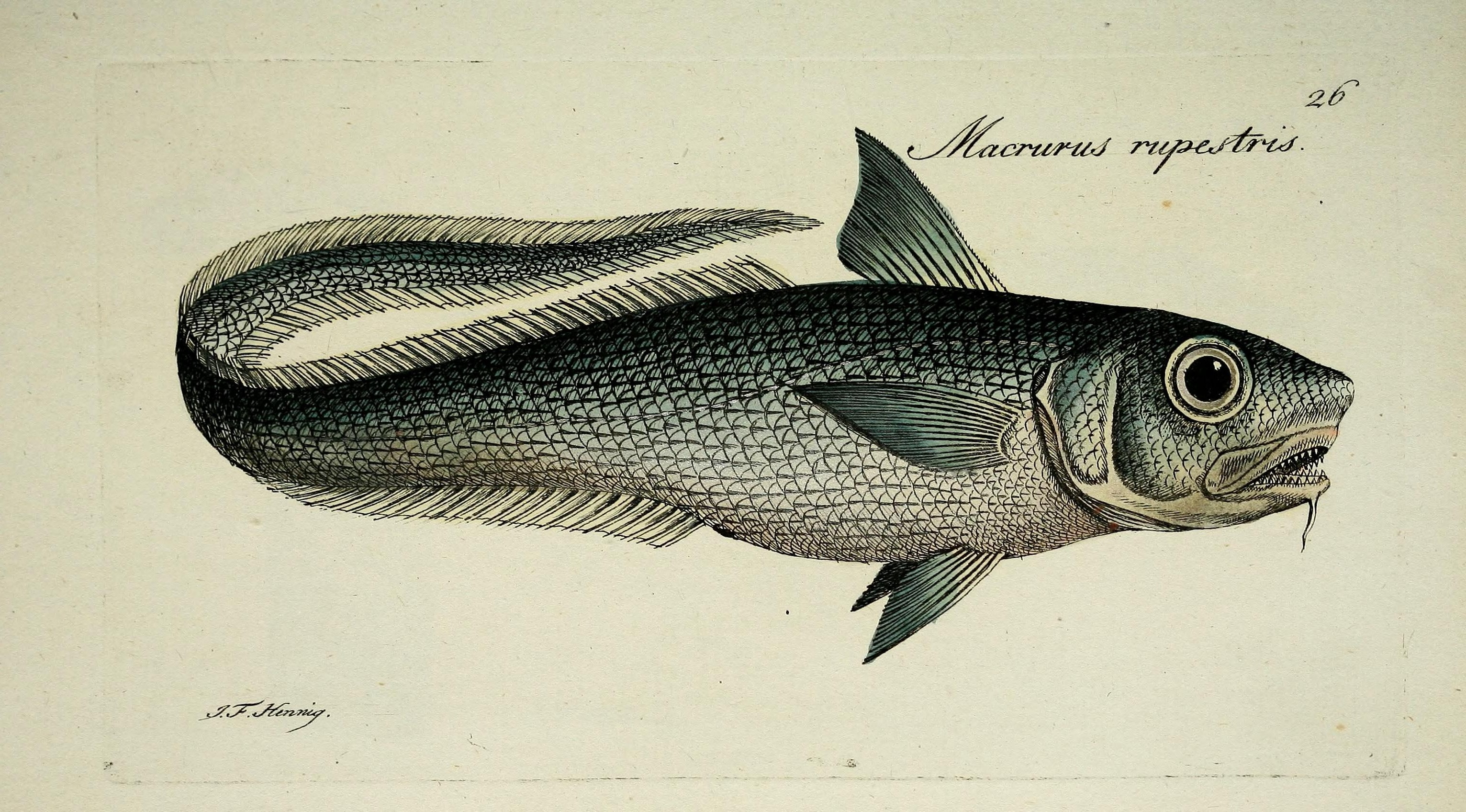 M.E. Blochii, doctoris medicinae Berolinensis ... Systema ichthyologiae iconibus CX illustratum. atlas.